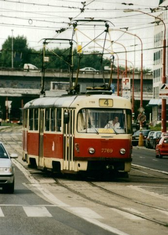 Tramway, Bratislava (Slovakia)